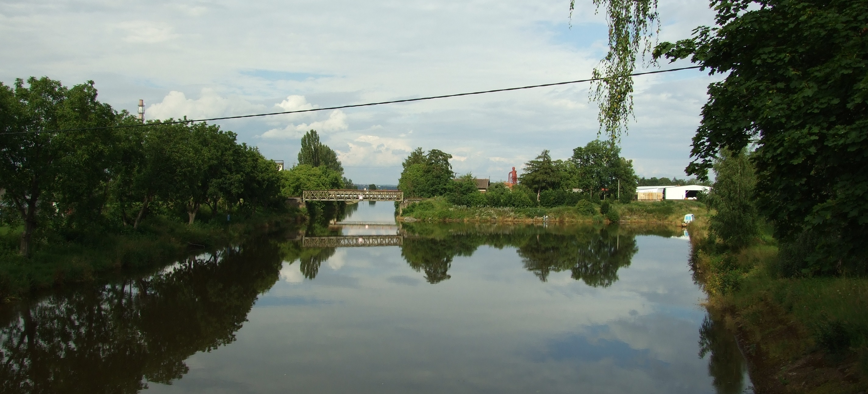 Town of Lužec nad Vltavou in Central Bohemian Region situated close to Mělník town, CZ. Rail bridge seen from road bridge. Both briges are connecting Lužec nad Vltavou with rest of the country; the village is situated on an artifically created islandhelp